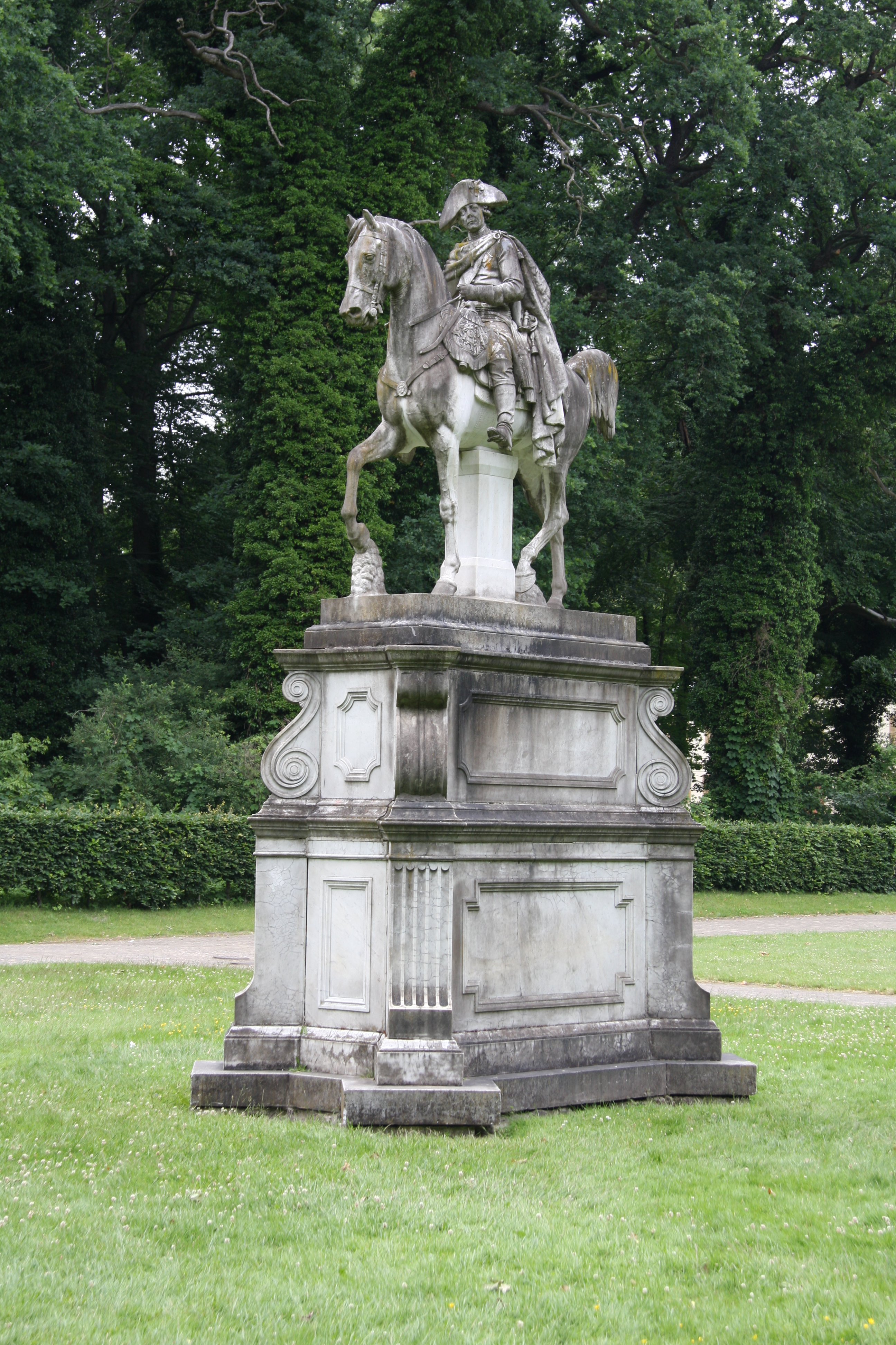 Equestrian statue of Frederick II of Prussia in Sanssouci